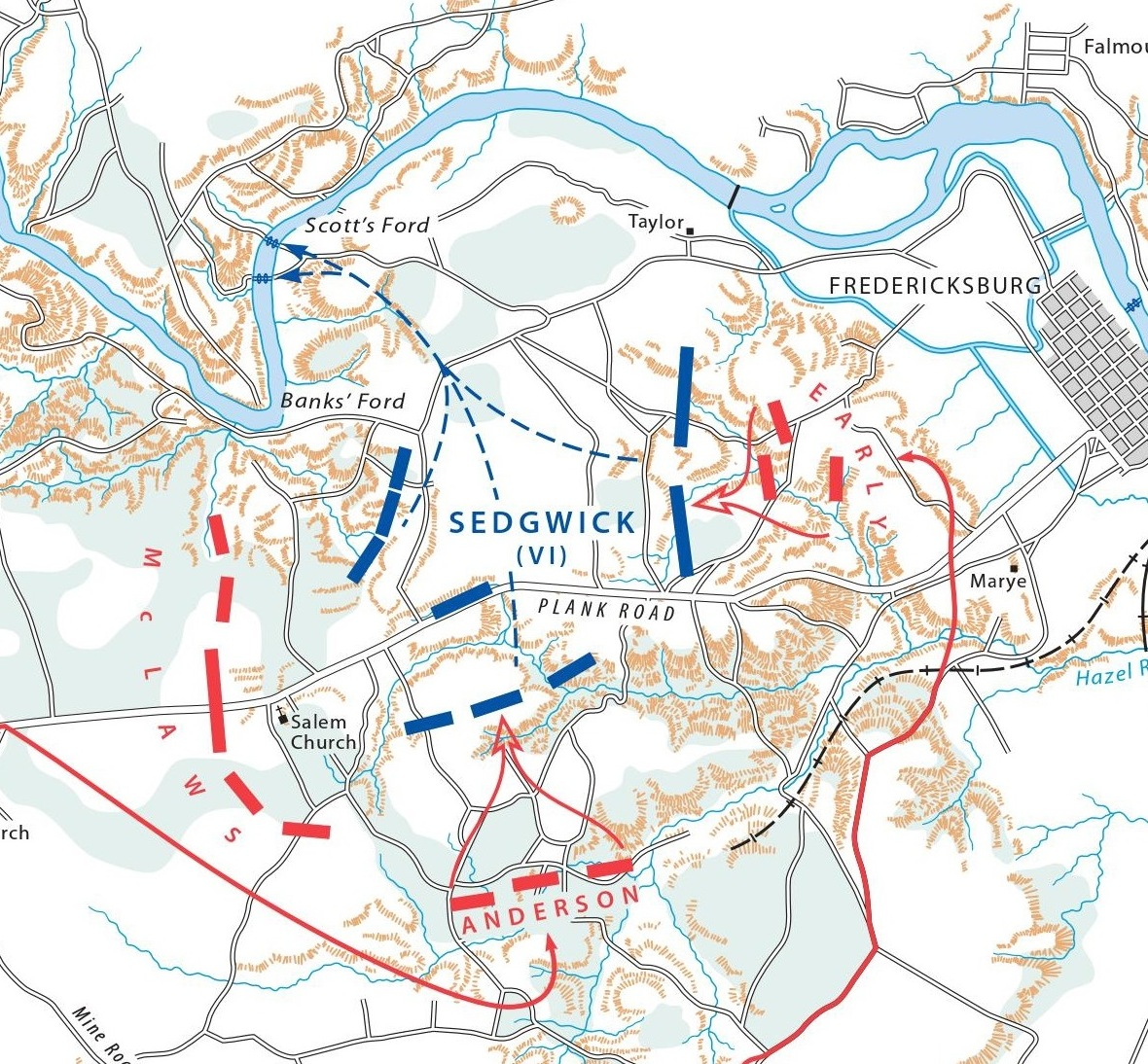 Battle of Banks' Ford May 4 1863